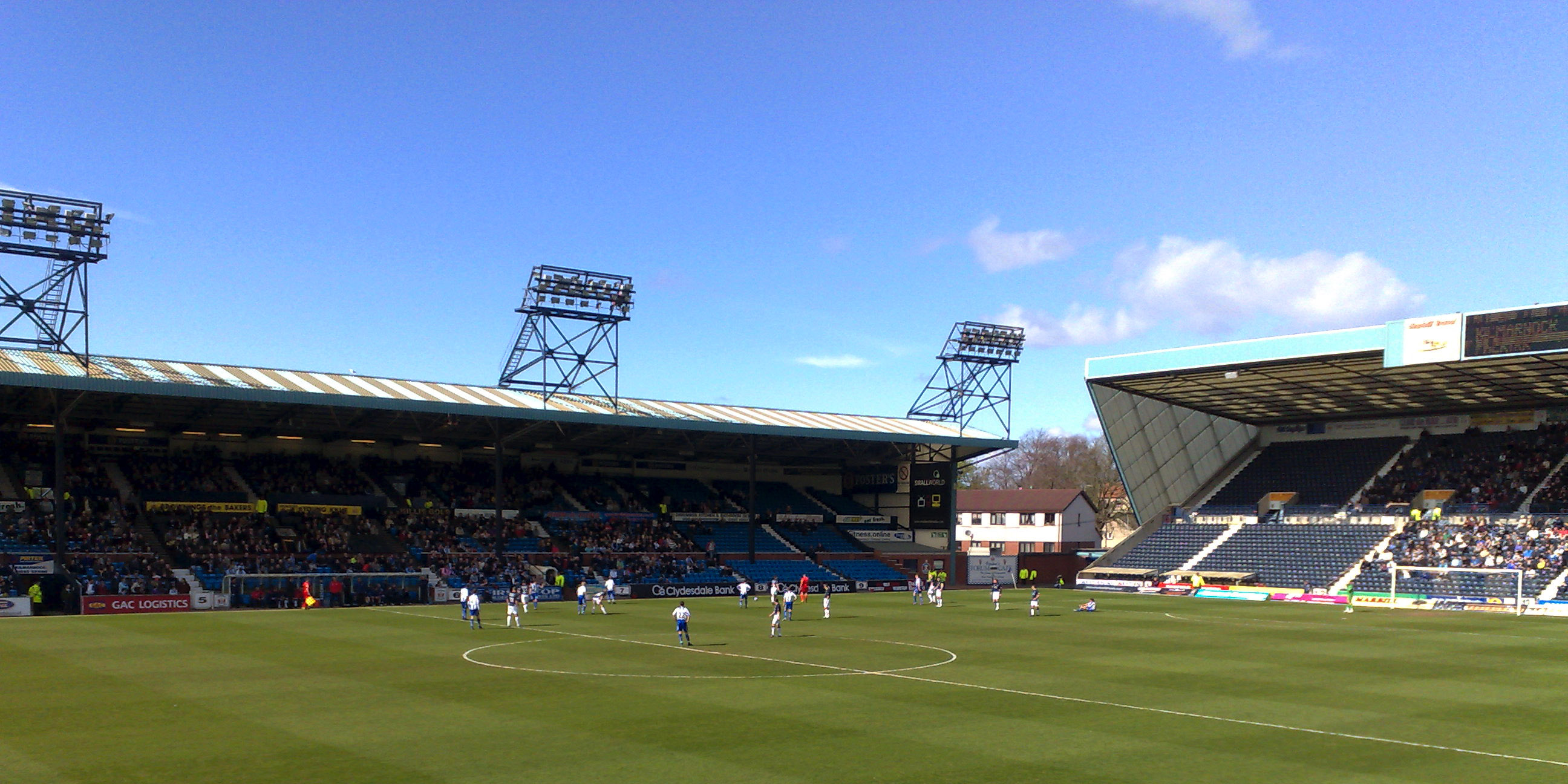 Rugby Park football stadium in Kilmarnock, Scotland